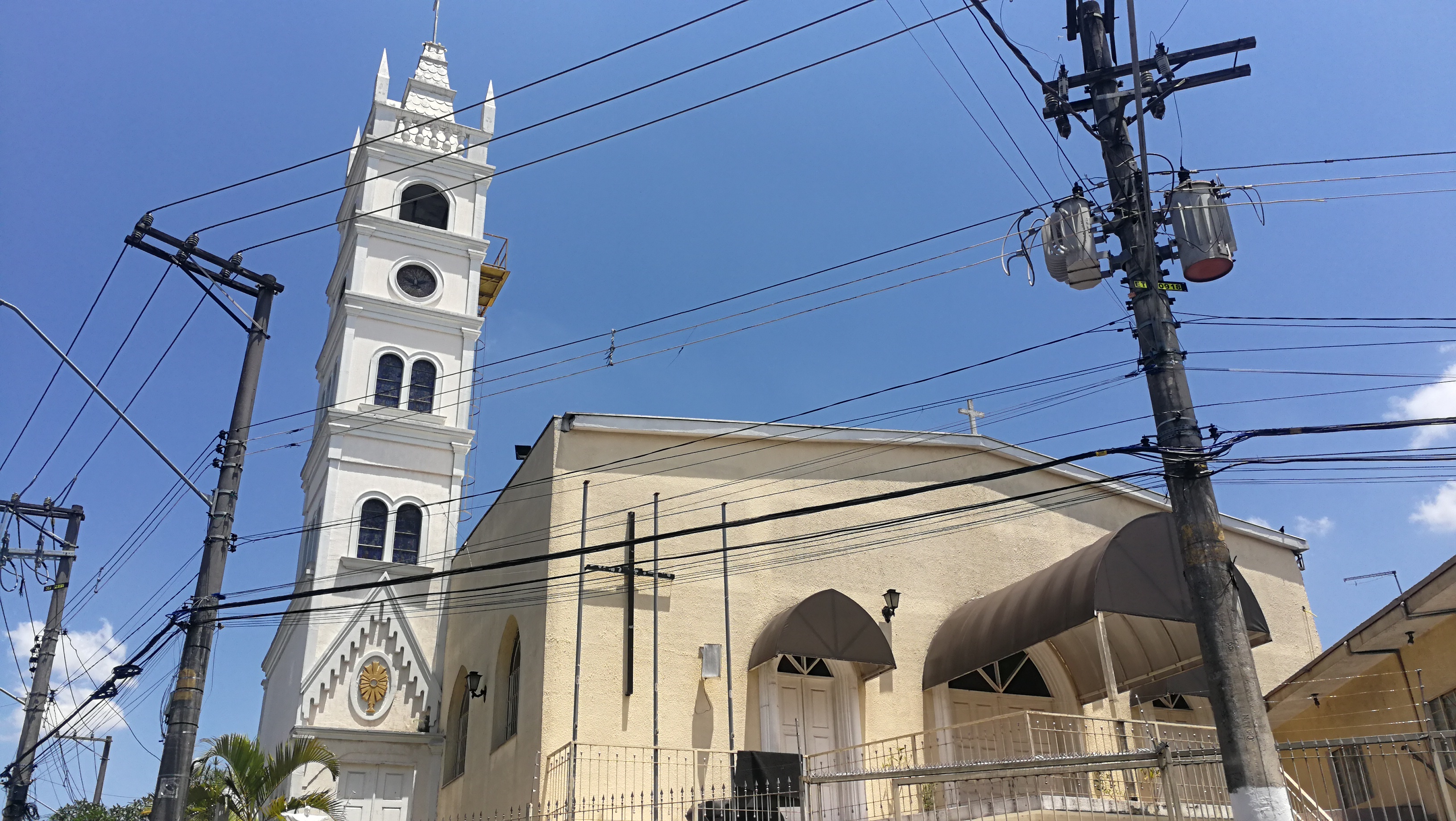 Roman Catholic Church Saint Sebastian in Jardim Mitsutani neighborhood.